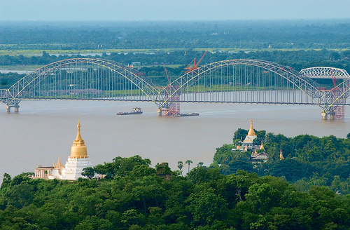 Sagaing, Burma. Image taken by MikeRussia on flickr in Autumn 2006. The creator has granted GFDL licensing and permission for use in the wikimedia project.